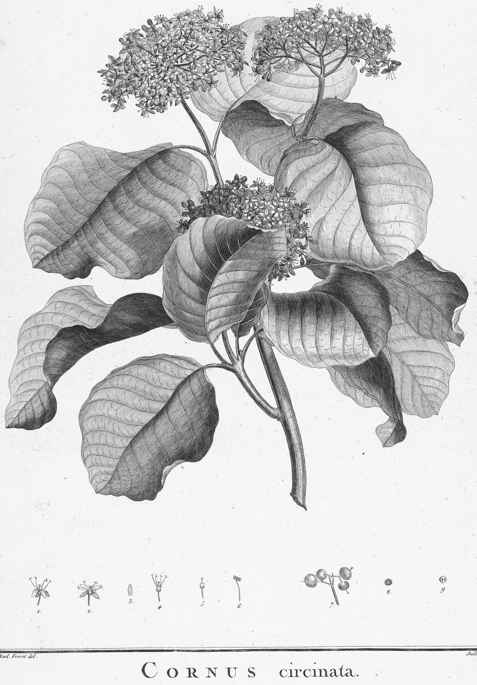 Plate from book